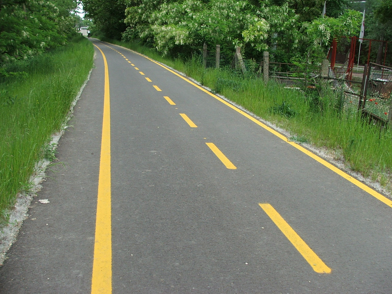 The Danube Bikeway near Szentendre, Hungary